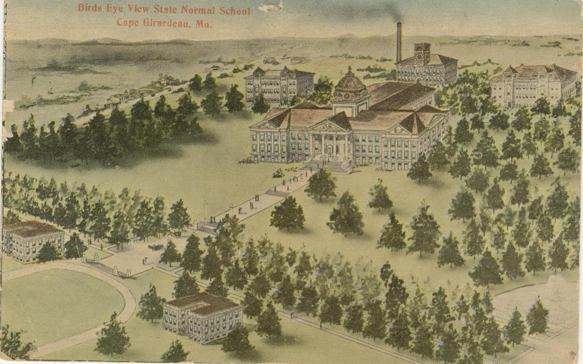 Postcard showing "birds-eye" view of Southeast Missouri Normal School, now Southeast Missouri State University, circa 1906. Academic hall is in the center of the image.